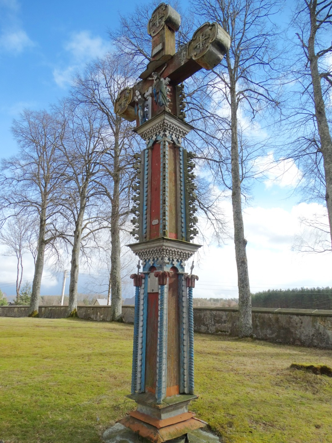 Kuktiškės, Utena district, Lithuania